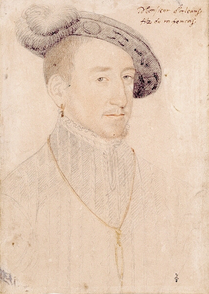 Henry, Duke of Orléans, the future King Henry II. of France, son of King Francis I of France and Queen Claude of France, husband of Catherine de' Medici, father of King Francis II of France, King Charles IX of France, King Henry III of France, Elizabeth de Valois (third wife of King Philip II of Spain) and Marguerite de Valois.